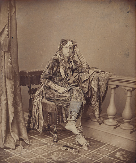 Portrait of Emily Ruete (Sayyida Salme) in traditional clothes as princess of Zanzibar